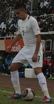 Algerian international Ryad Boudebouz playing against Gambia in a 2013 Africa Cup of Nations qualifier